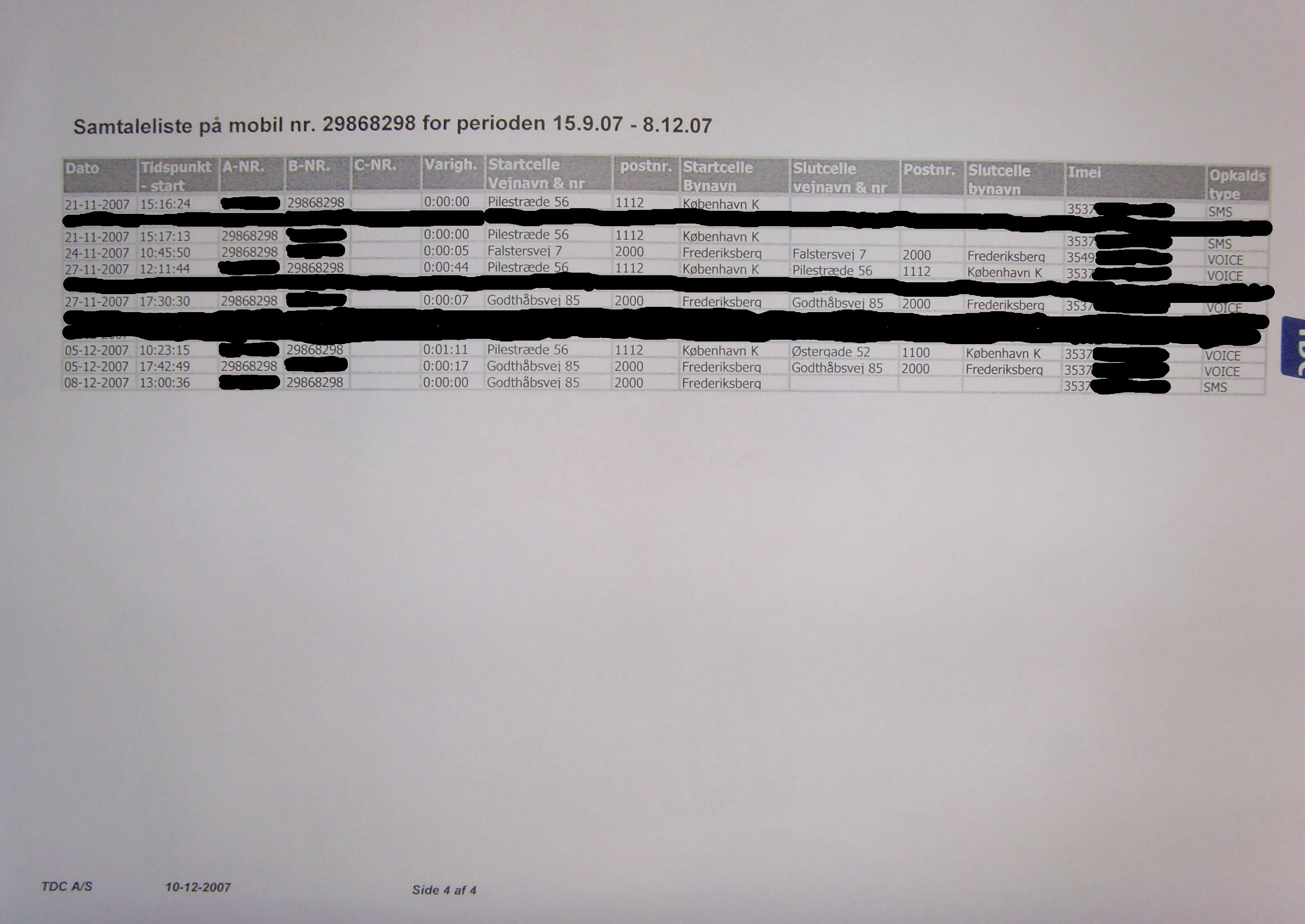 Print of cell phone mast data from Danish provider Telmore/TDC. The network providers in Denmark are required by law to store such data for possible police investigations. The print has the following columns: Date, timestamp, calling number, receiving number, duration, address of mast (caller), address of mast (receiver), IMEI number of phone, type of traffic (voice/SMS).